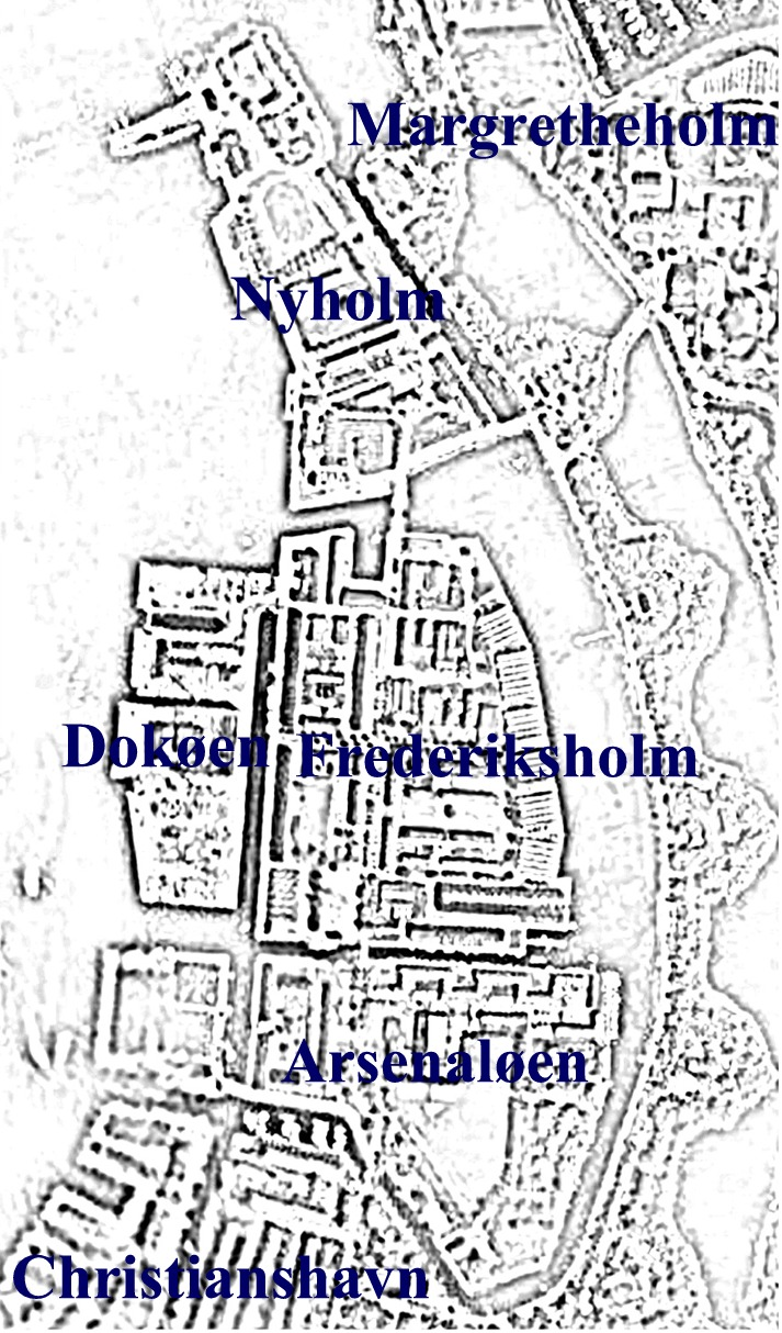 Naval Base Copenhagen Map Manuipulation Jan Kronsell, 2005